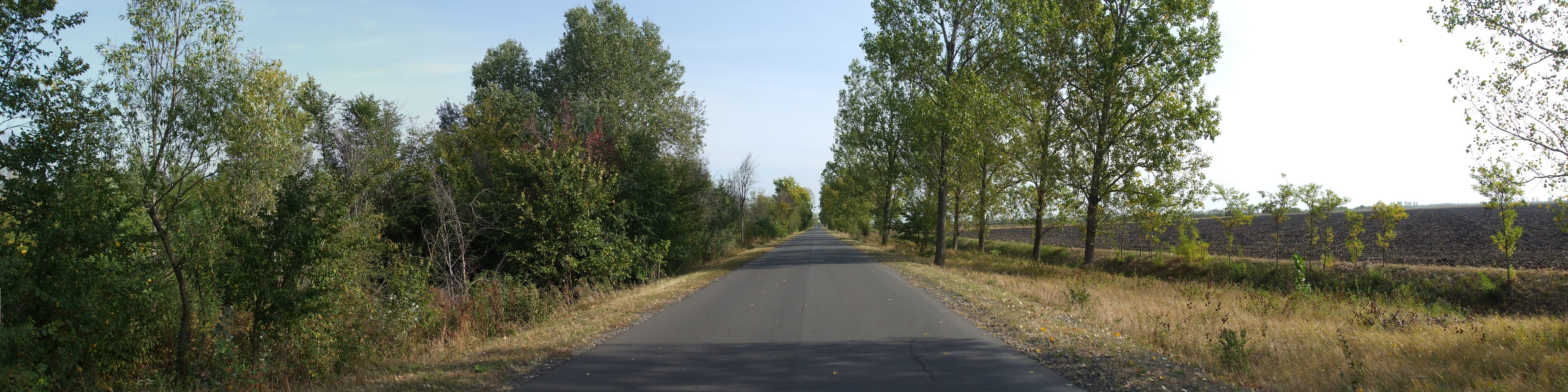 The 4231 road, between Dévaványa and Gyomaendrőd, Hungary .